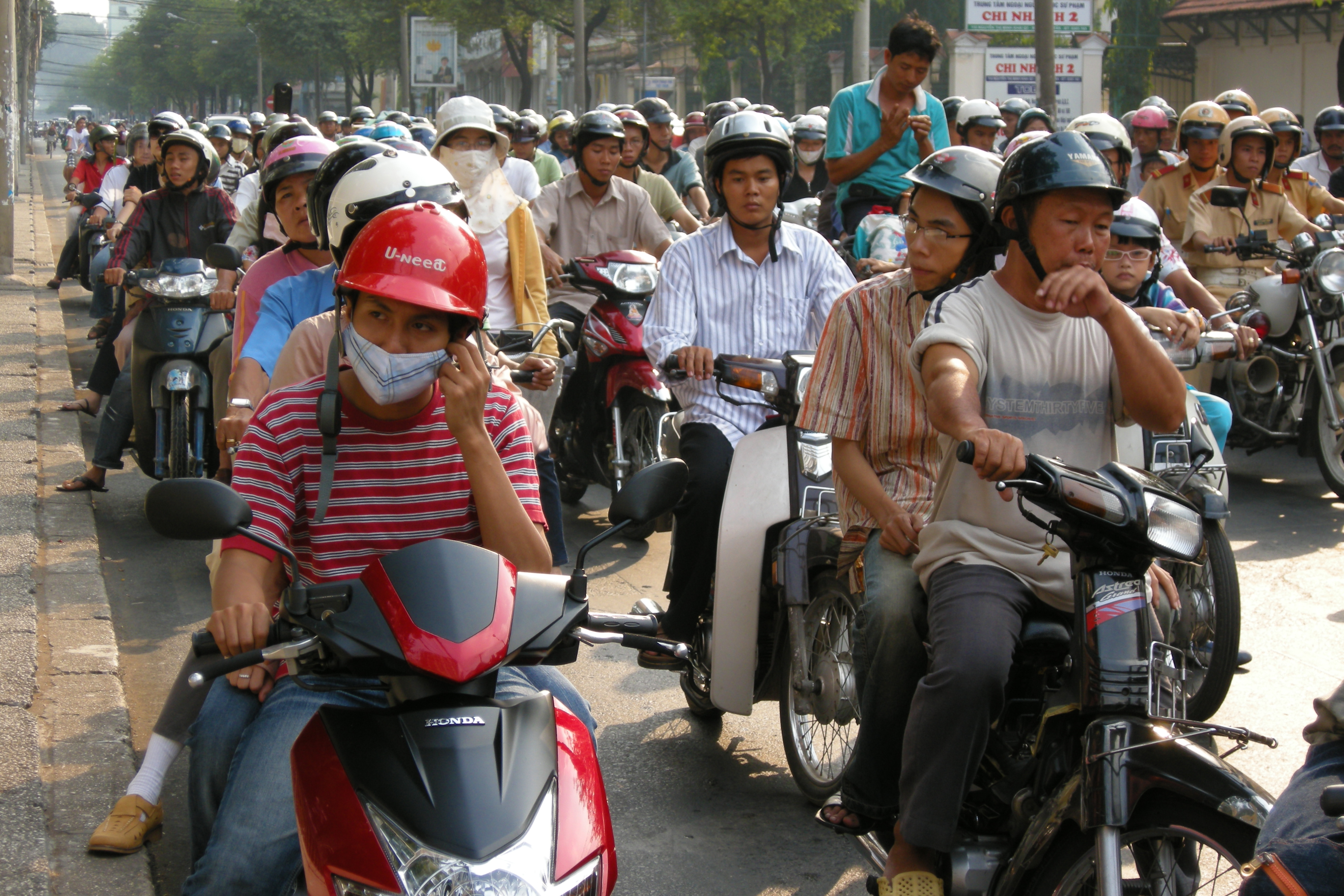 Ho Chi Minh City, also known as Saigon, the most populous city in Vietnam with a population of 8+ million.